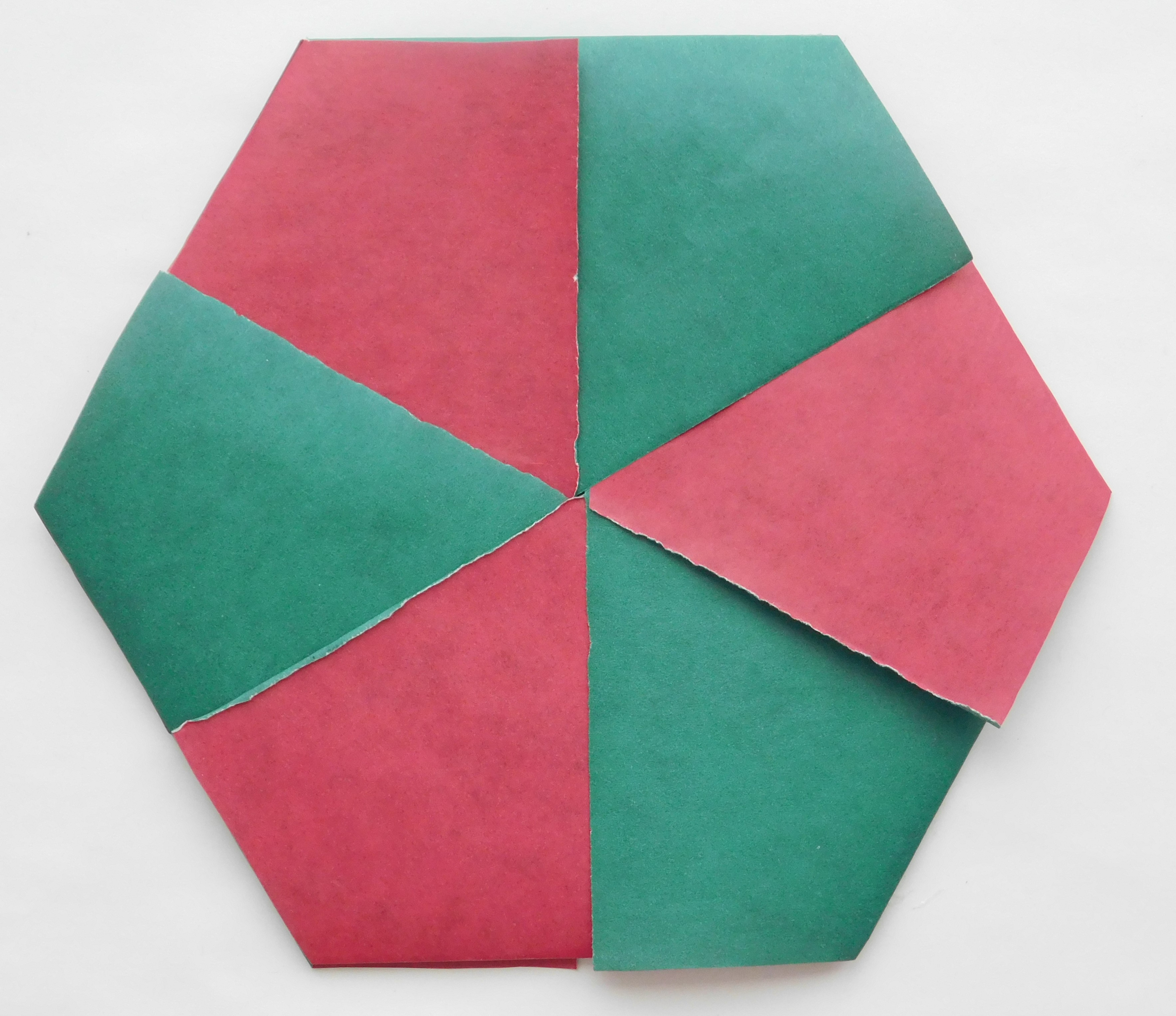 Sphere eversion (turning inside out) keeping hexagonal symmetry, the halfway stage (Morin surface, both sides equally privileged), flattened with folds along a regular hexagon, cut out of doubly colored paper (red/green). Eversion is impossible using full rotational symmetry but any 2n-gonal suffices. The depicted part is homeomorphic to a cylinder/collar/bottleneck, to be glued to two spheres opposite oriented. Note the sextuple intersection in the center, double intersections between different colors and fold annihilation at the vertices.